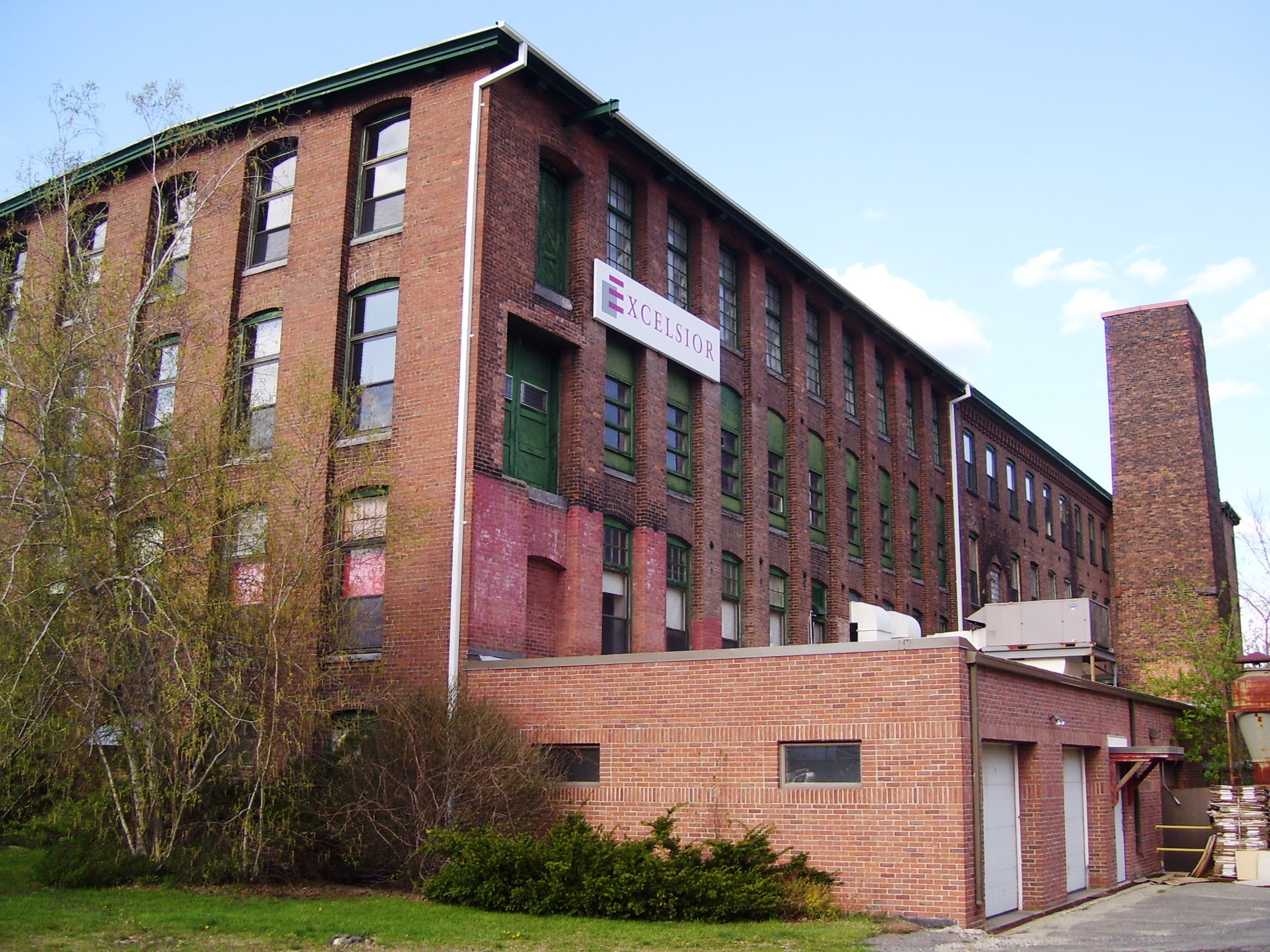 The Norad Mill is a historic mill located at 60 Roberts Drive between Massachusetts Avenue and Route 2 (State Road) in North Adams, Massachusetts. The mill was built in 1863 in the Italianate style, and was added to the National Register of Historic Places in 1985.